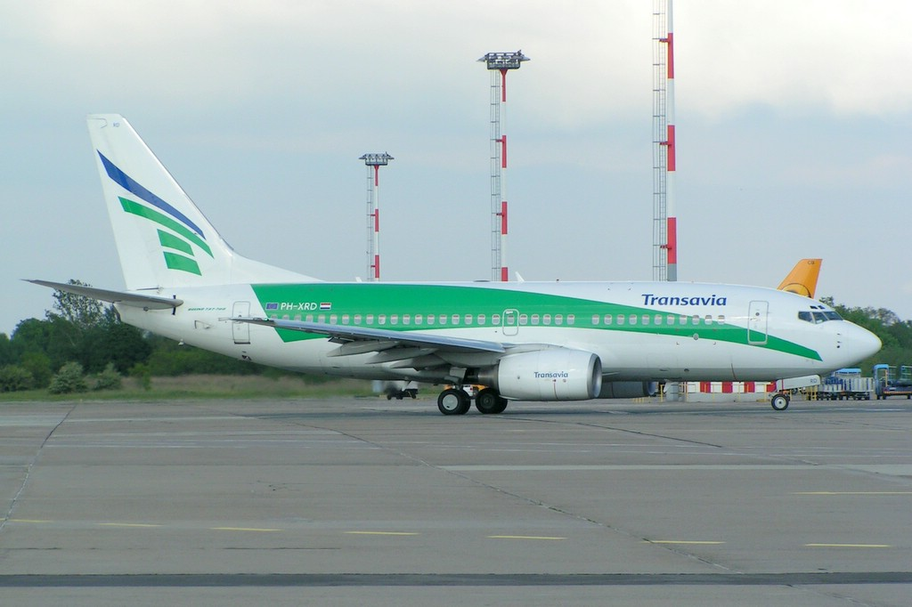 Boeing 737-7K2 by the Dutch Airline "Transavia" at Berlin-Schönefeld Source: taken by David Herrmann, 22. Mai 2005